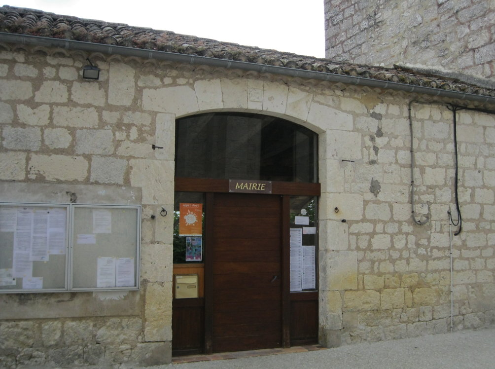 Flaugnac (Lot - France)) : View of the town hall